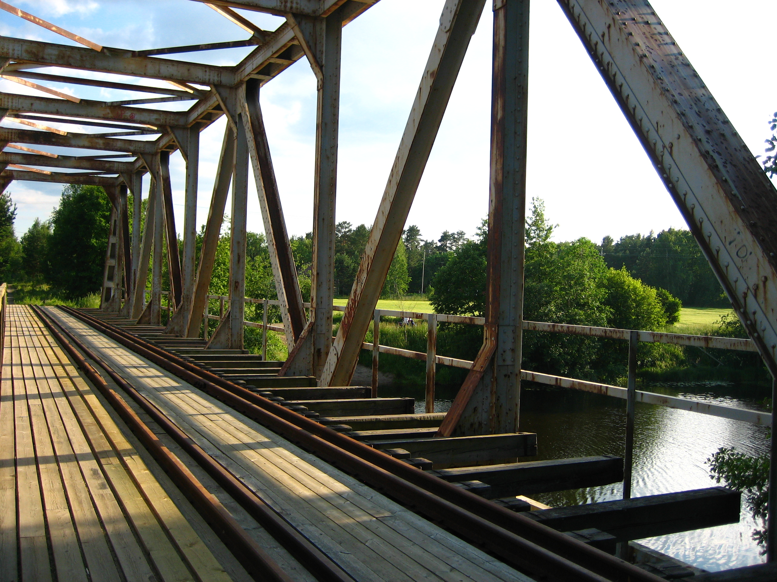 Noormarkunjoki railway bridge in Noormarkku in summer 2007. The bridge is part of Pori-Haapamäki-railway, decommissioned in 1985. Photograph taken towards west. On the left, there is a walkway constructed by the Satakunnan elämysrautatie association.